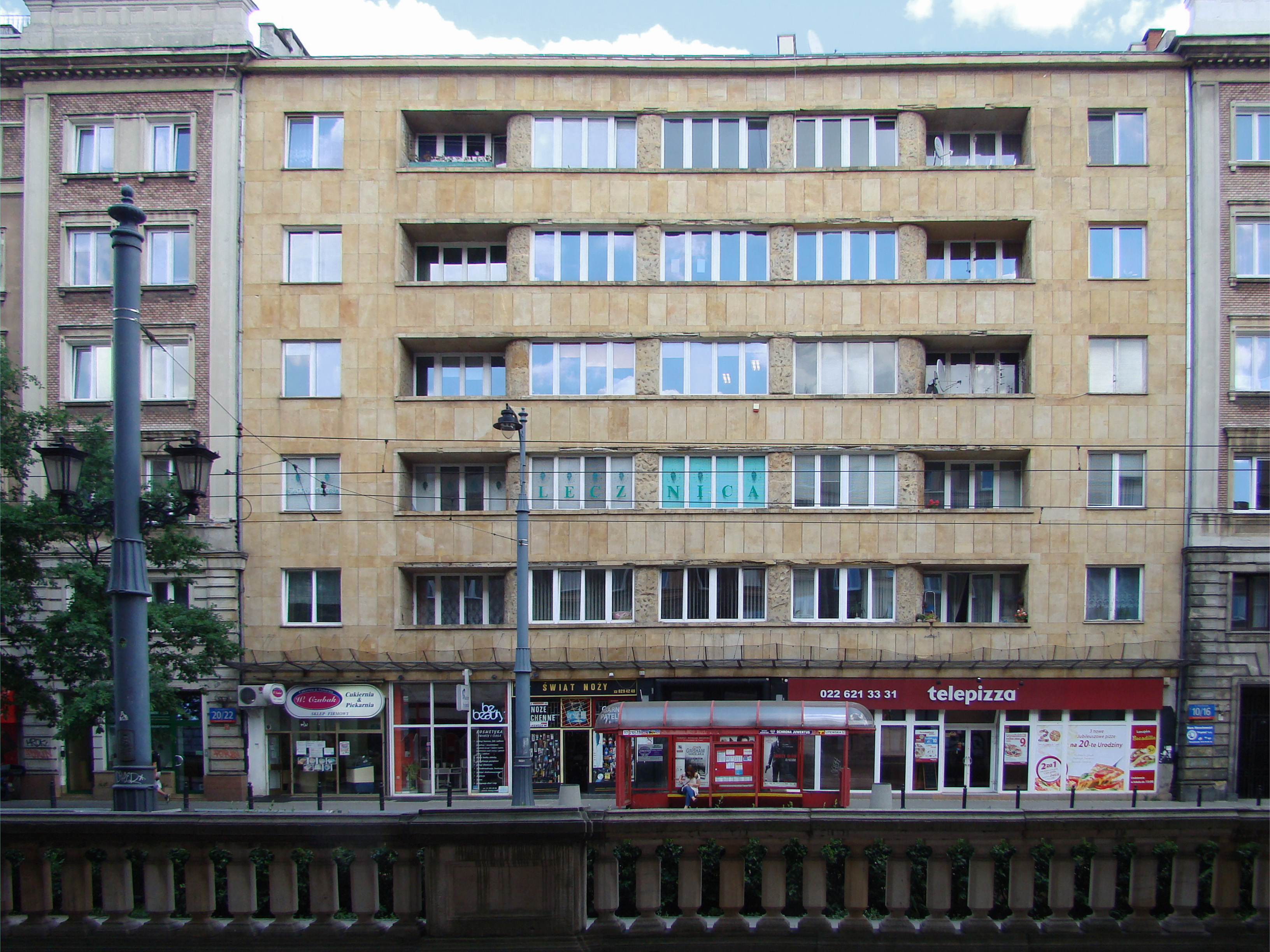 Tenement house, Warsaw, Marszałkowska St., ca. 1938, architect Lucjan Korngold